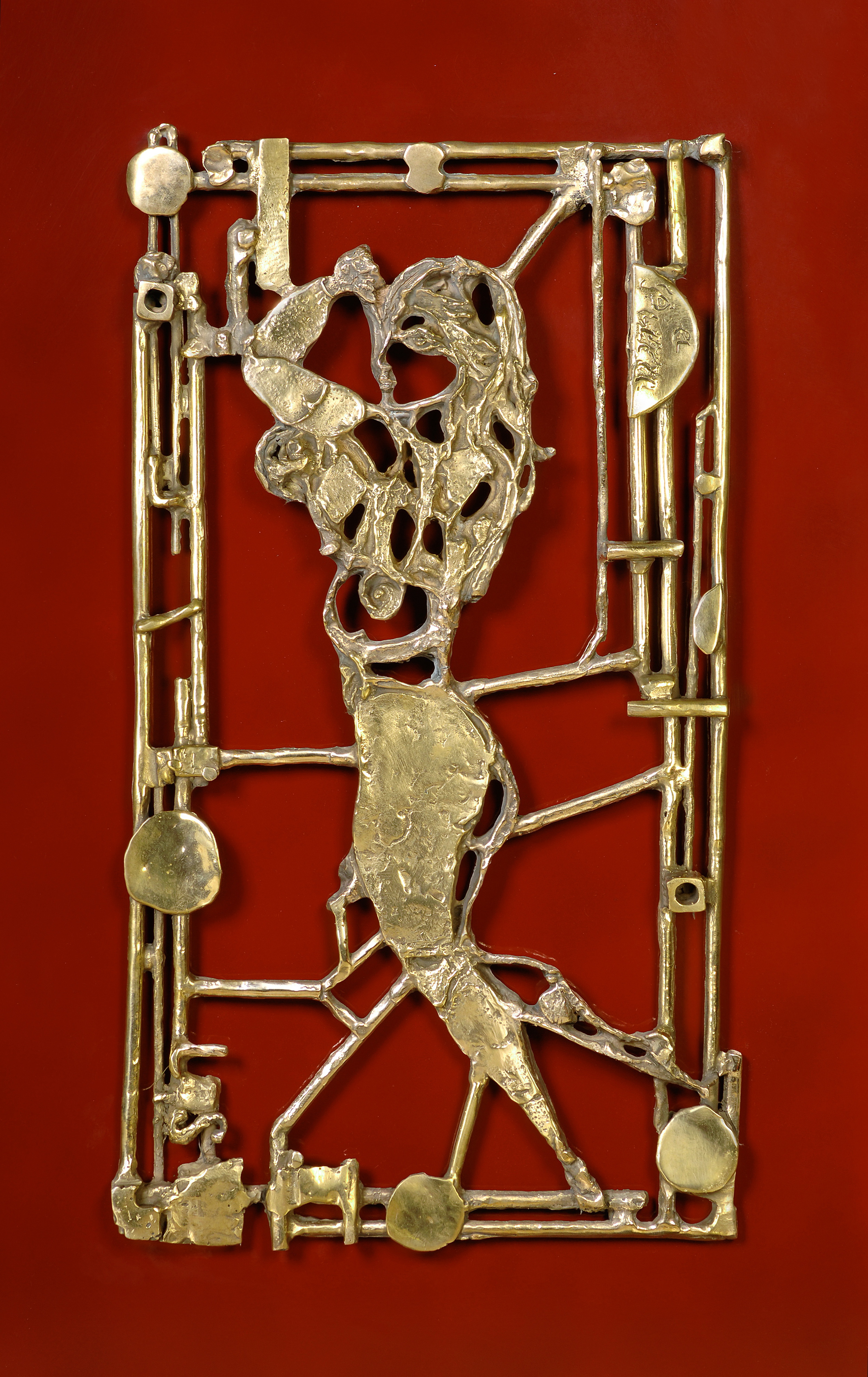 Persephone's Metamorphosis 2007